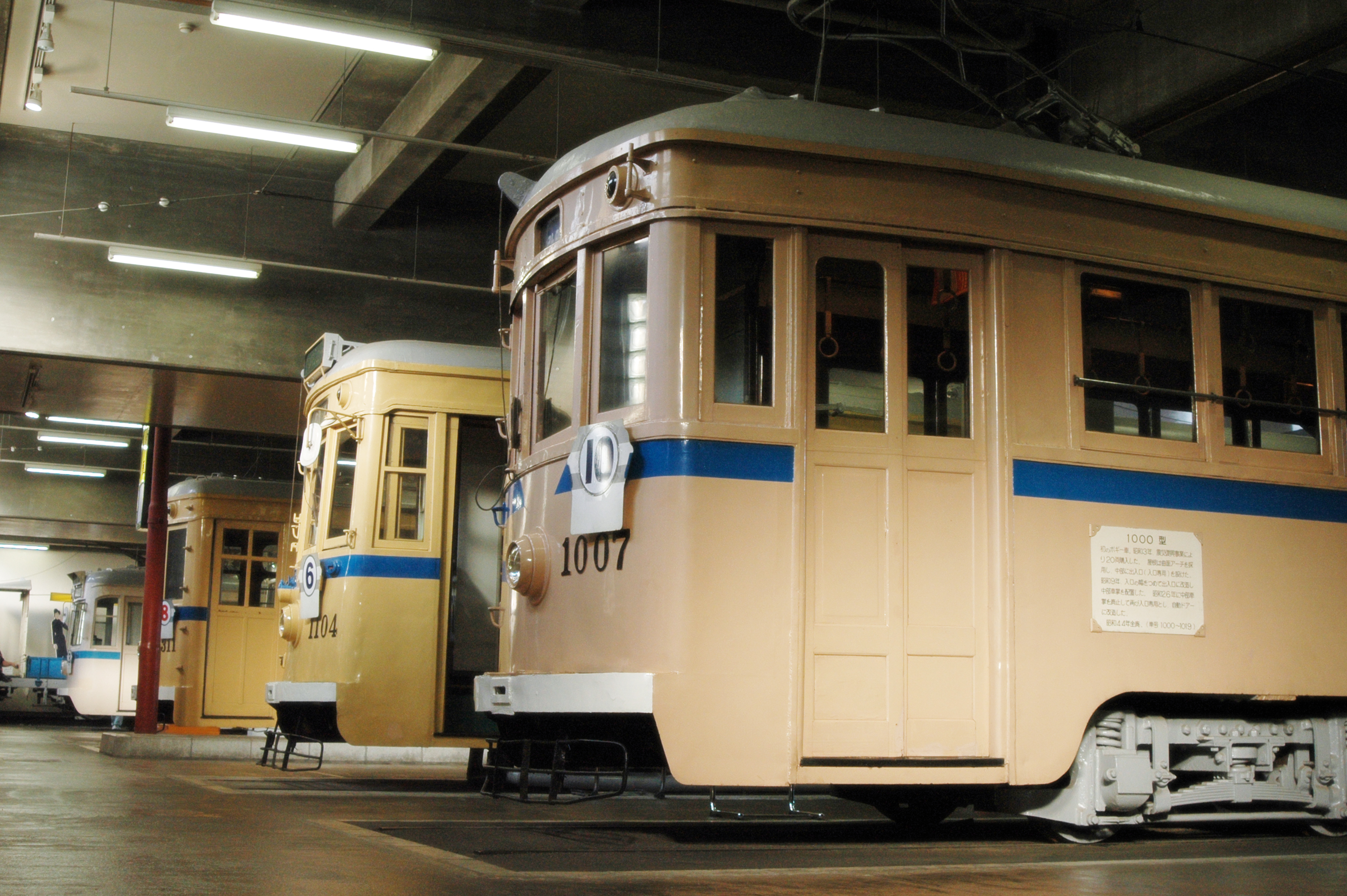 Preserved Yokohama-city-streetcar (Yokohama-Shiden) in Yokohama-Shiden-Museum, Takigashira, Yokohama, Japan